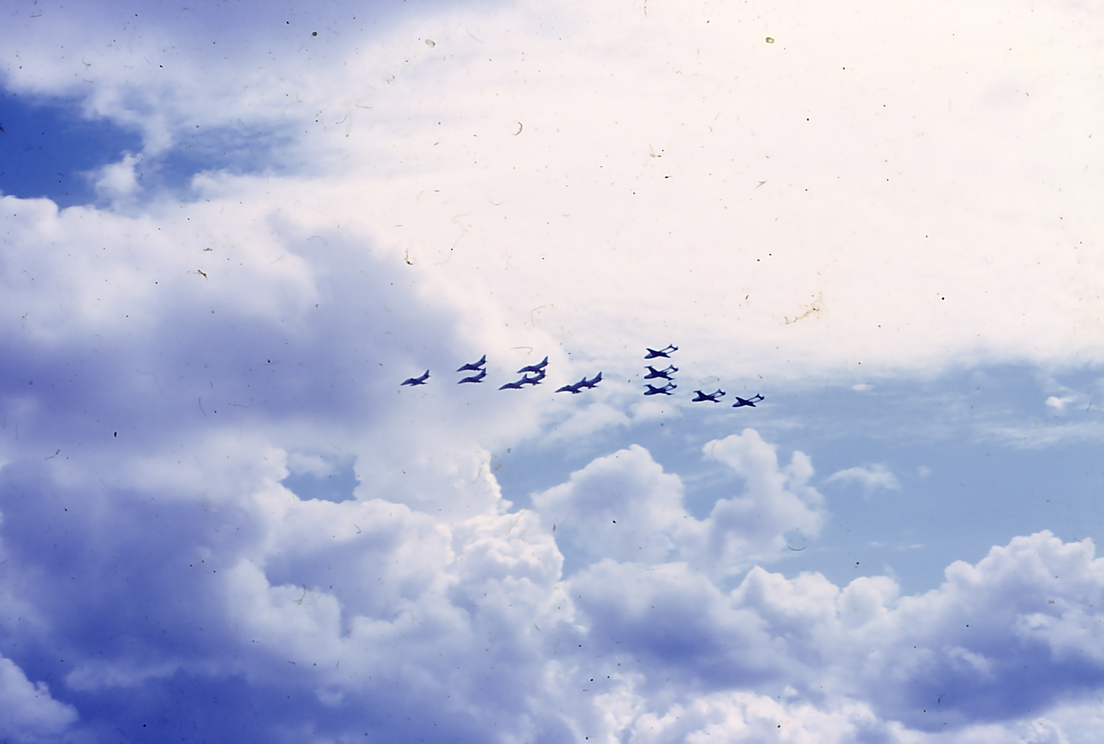 HMAS Albatross held an open day and air show to celebrate the twenty first anniversary of the Naval Air Station at Nowra. The Navy had a well deserved reputation for having the best air shows in NSW and this day was no exception. There was a huge attendance and it took some hours to cover the few kilometres into Nowra at the end of the day. The return to Sydney that night was bumper to bumper traffic all the way. Here a flight consisting of McDonnell Douglas A-4G Skyhawks and De Havilland Sea Venoms perform a flypast for the crowd.